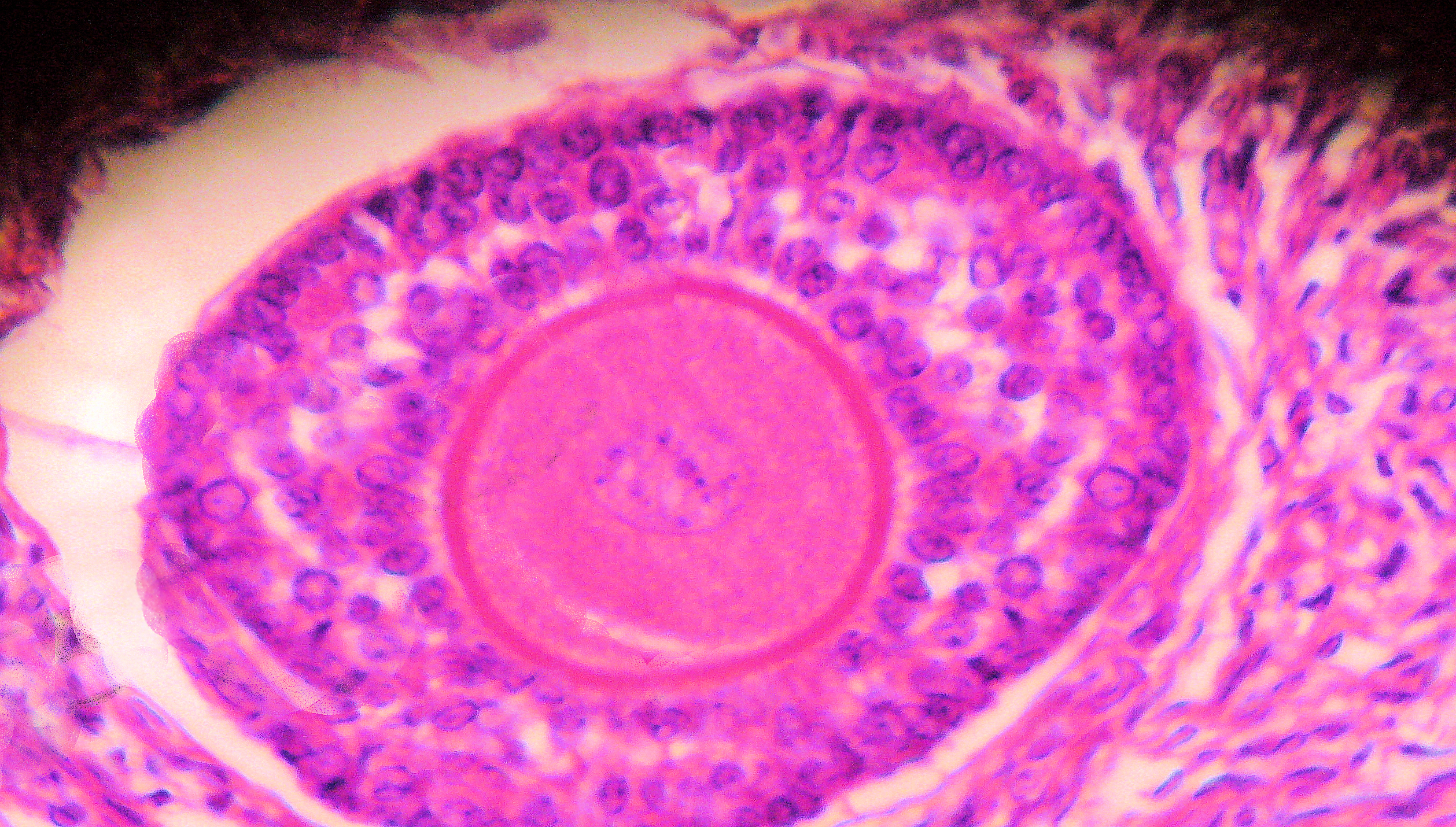 Digital camera shot though a microscope; human primary follicle.